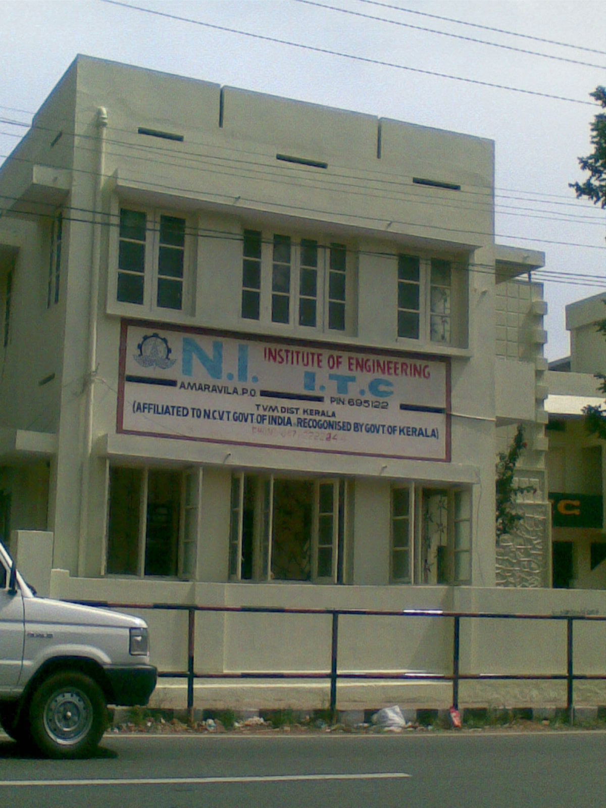 NI Institute of Engineering ITC Amaravila